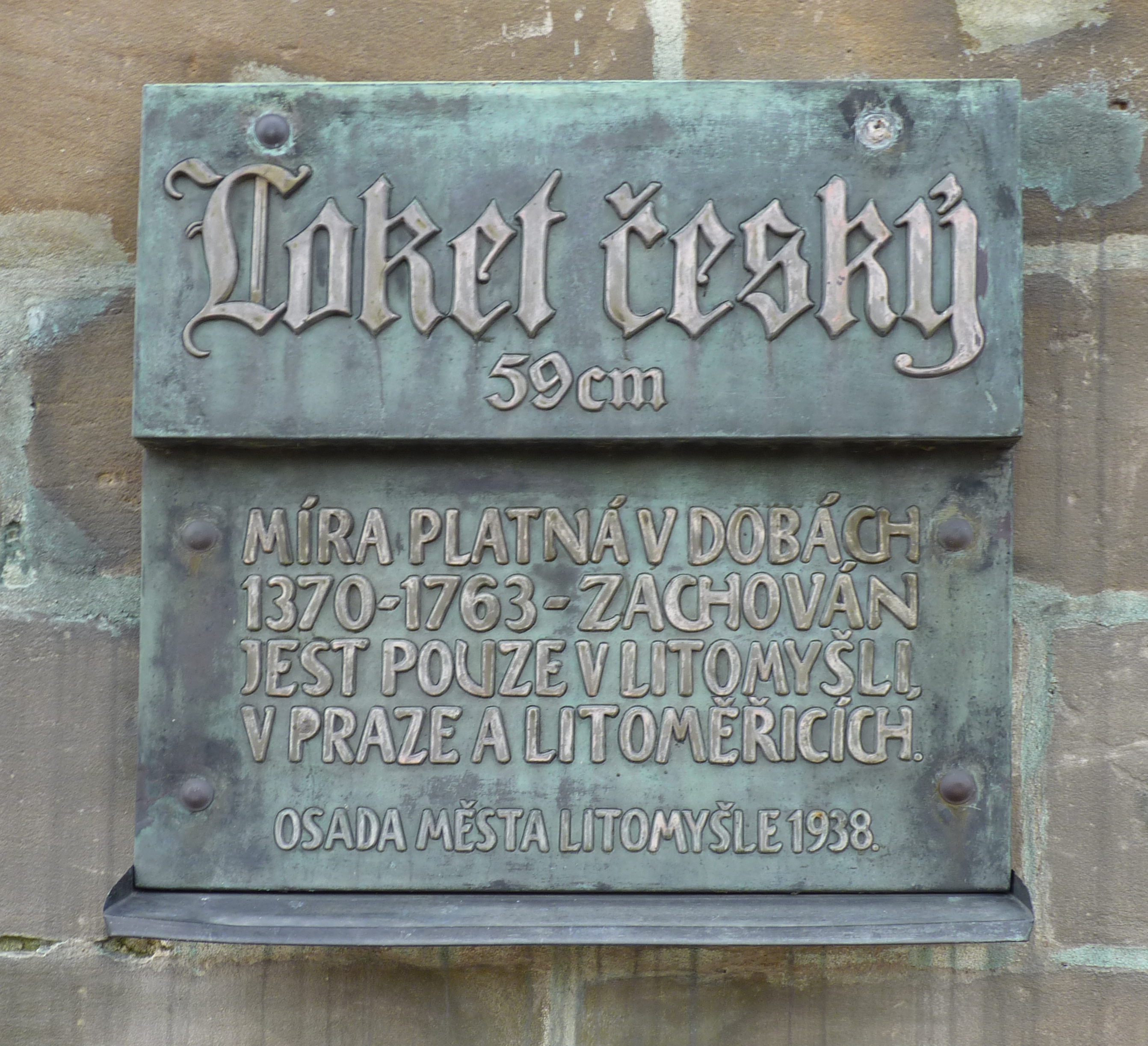 Czech Ell, plaque at town hall in Litomyšl, Svitavy District, Pardubice Region, Czech Republic